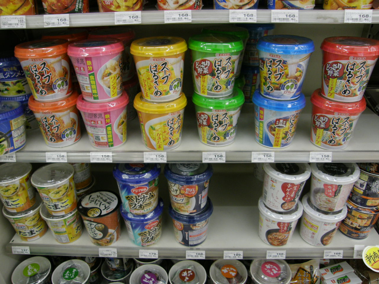 Cellophane noodles